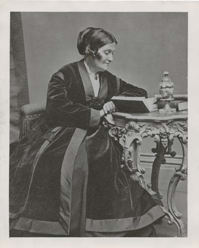 Portrait of Abigail Bush taken in the 1850s